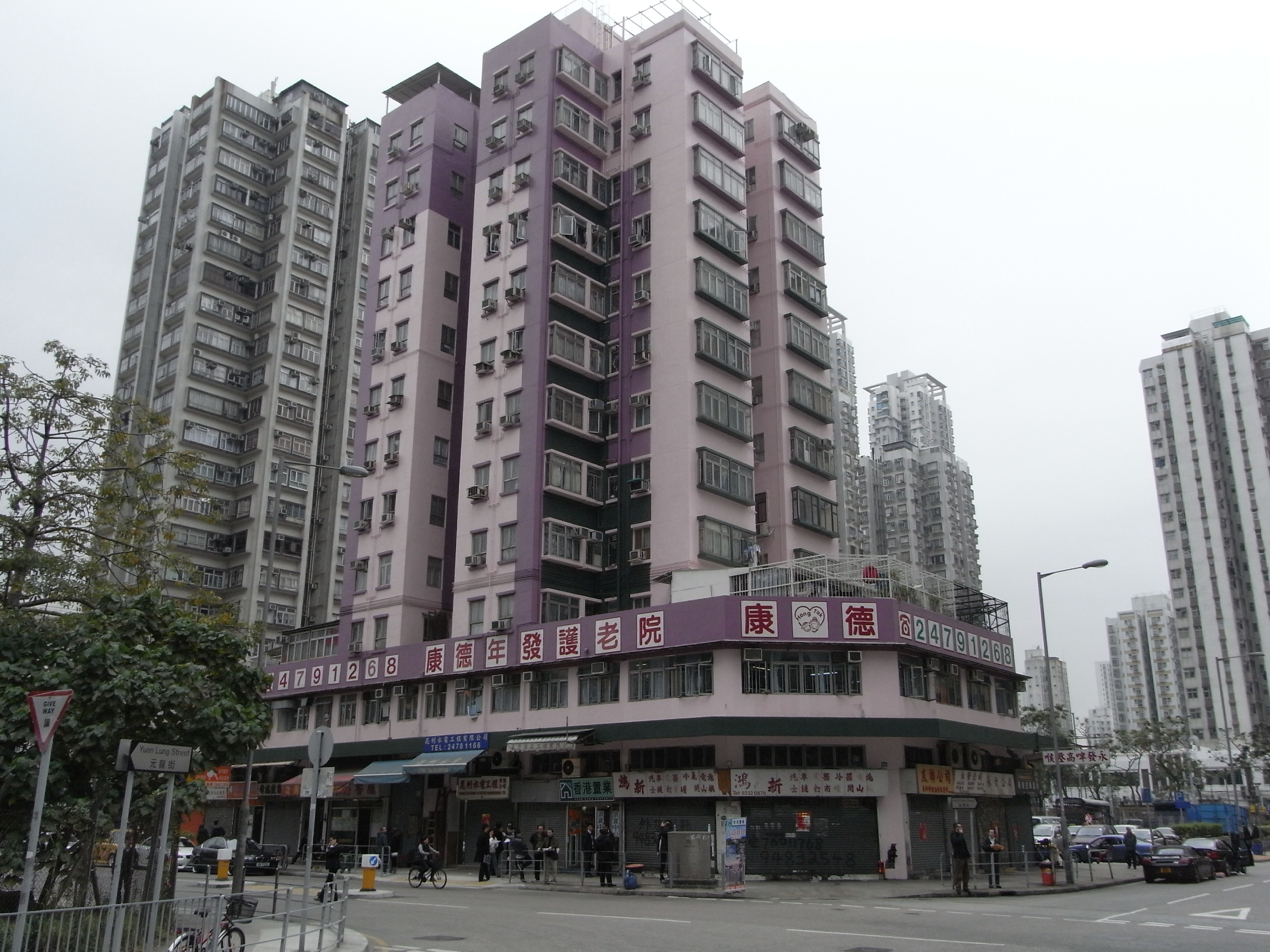 元朗 元龍街望 鳳攸東街 鳳群街